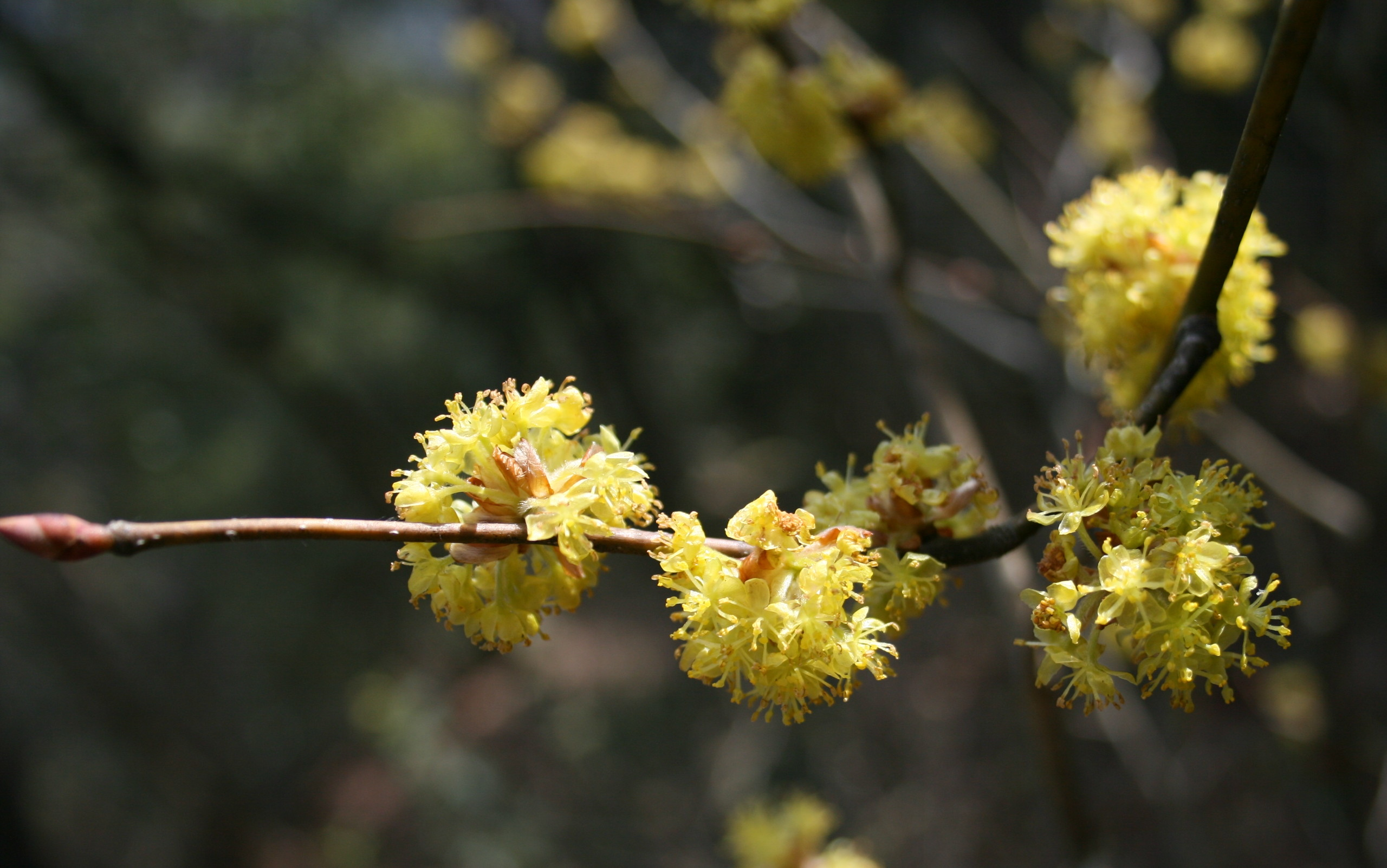 Lindera obtusiloba , flowers in Mount Noko, Gifu, Japan.